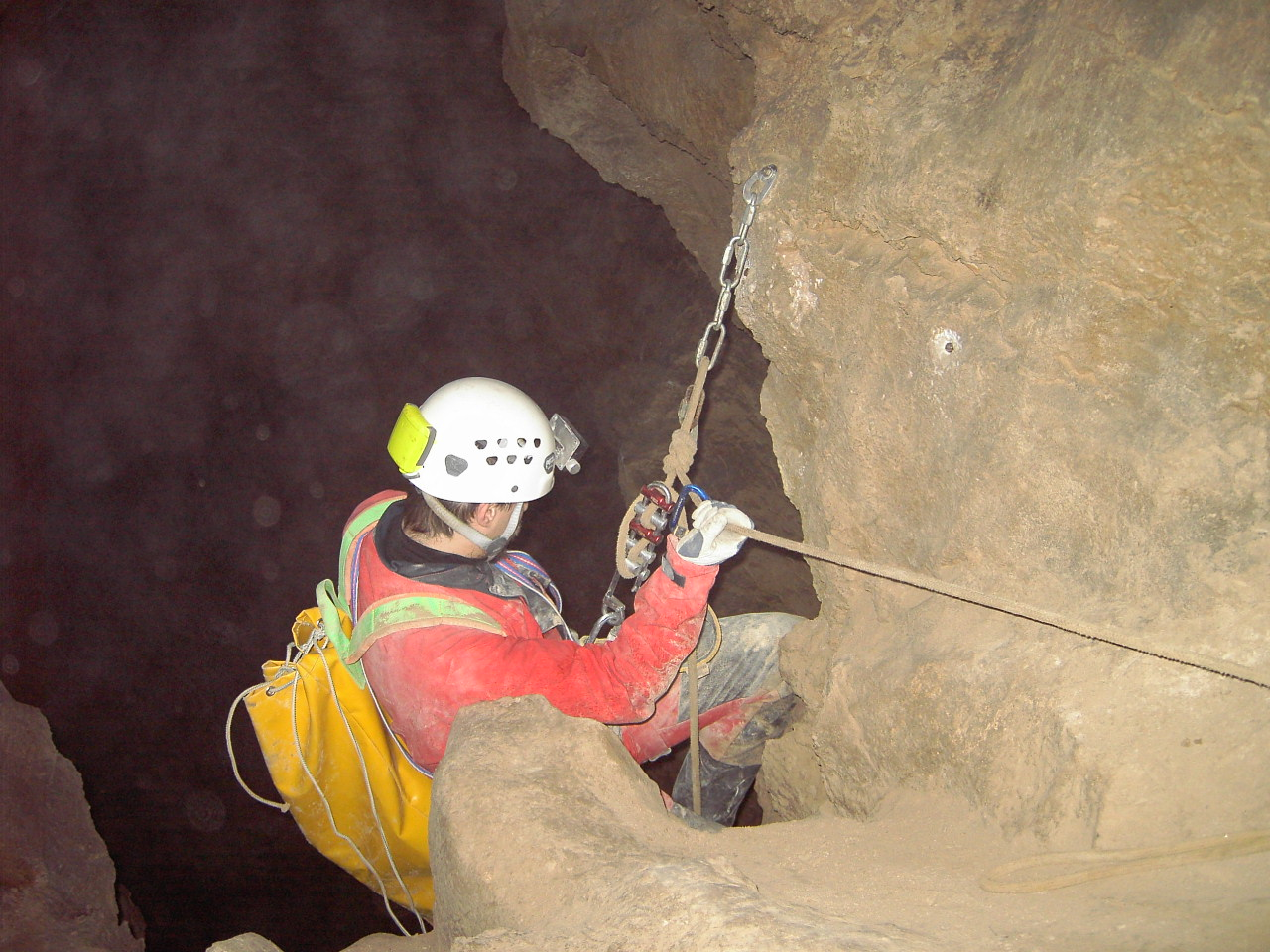 Benedikt Hallinger prepares for abseiling into the Riesenschlot (Hirlatz Cave).